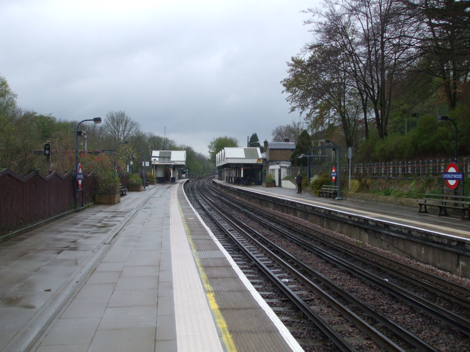 Chorleywood station platforms looking north